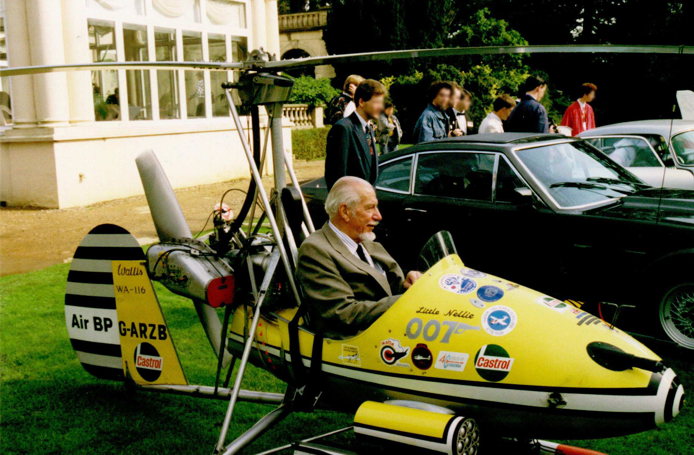 The miniature Autogyro, Little Nellie, as seen in the James Bond movie You Only Live Twice, here at a convention with its creator and pilot, Wing Commander Ken Wallis.